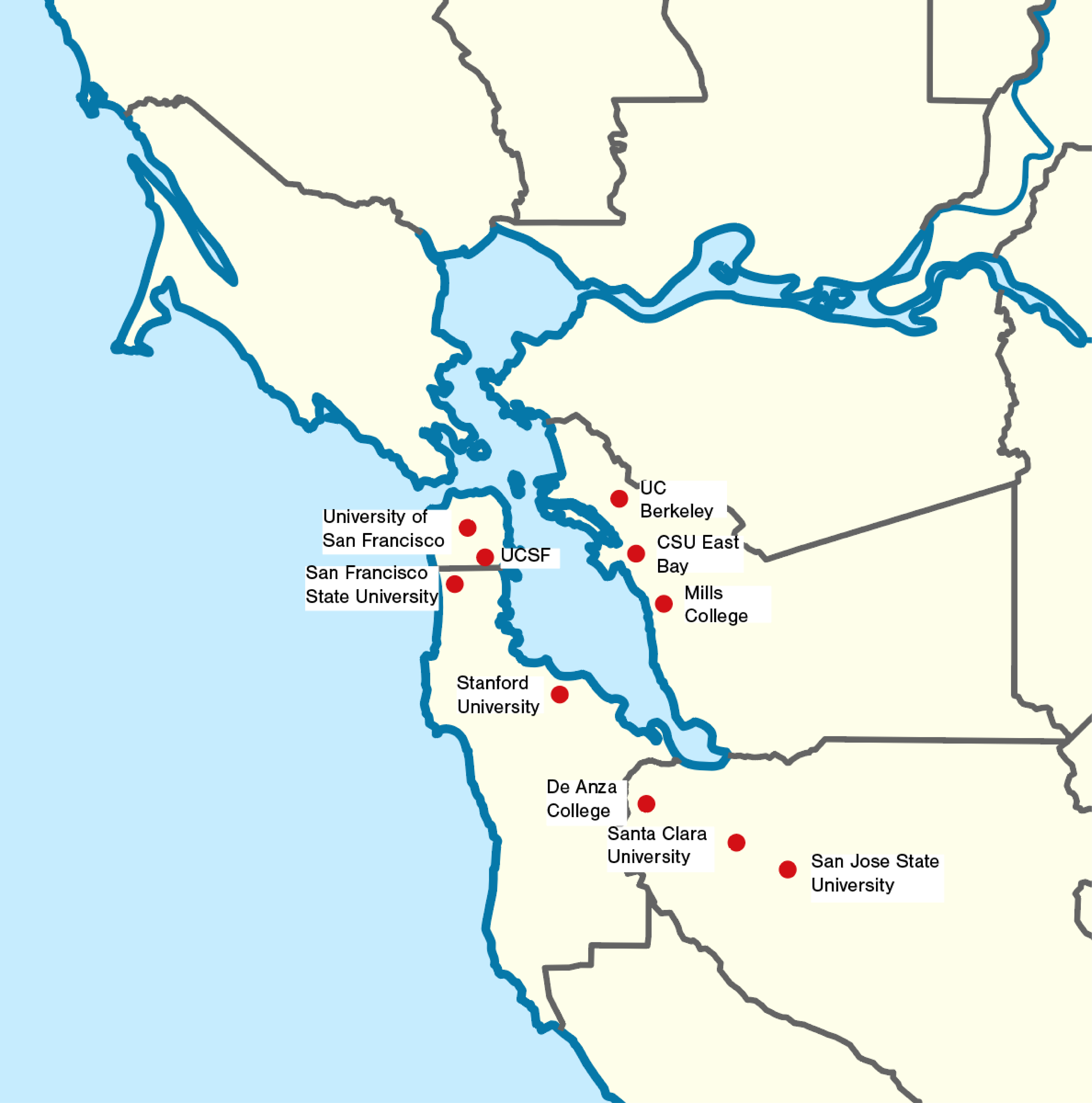 This graphic shows the approximate locations of prominent colleges and universities laid over a graphic map of the Bay Area.